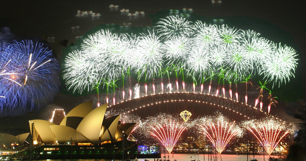 Sydney. Fireworks Newyear 2006. Opera House and Harbour.